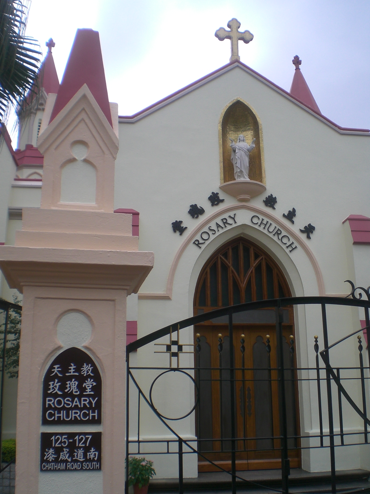 九龍zh:尖沙咀zh:漆咸道南125號九龍玫瑰堂